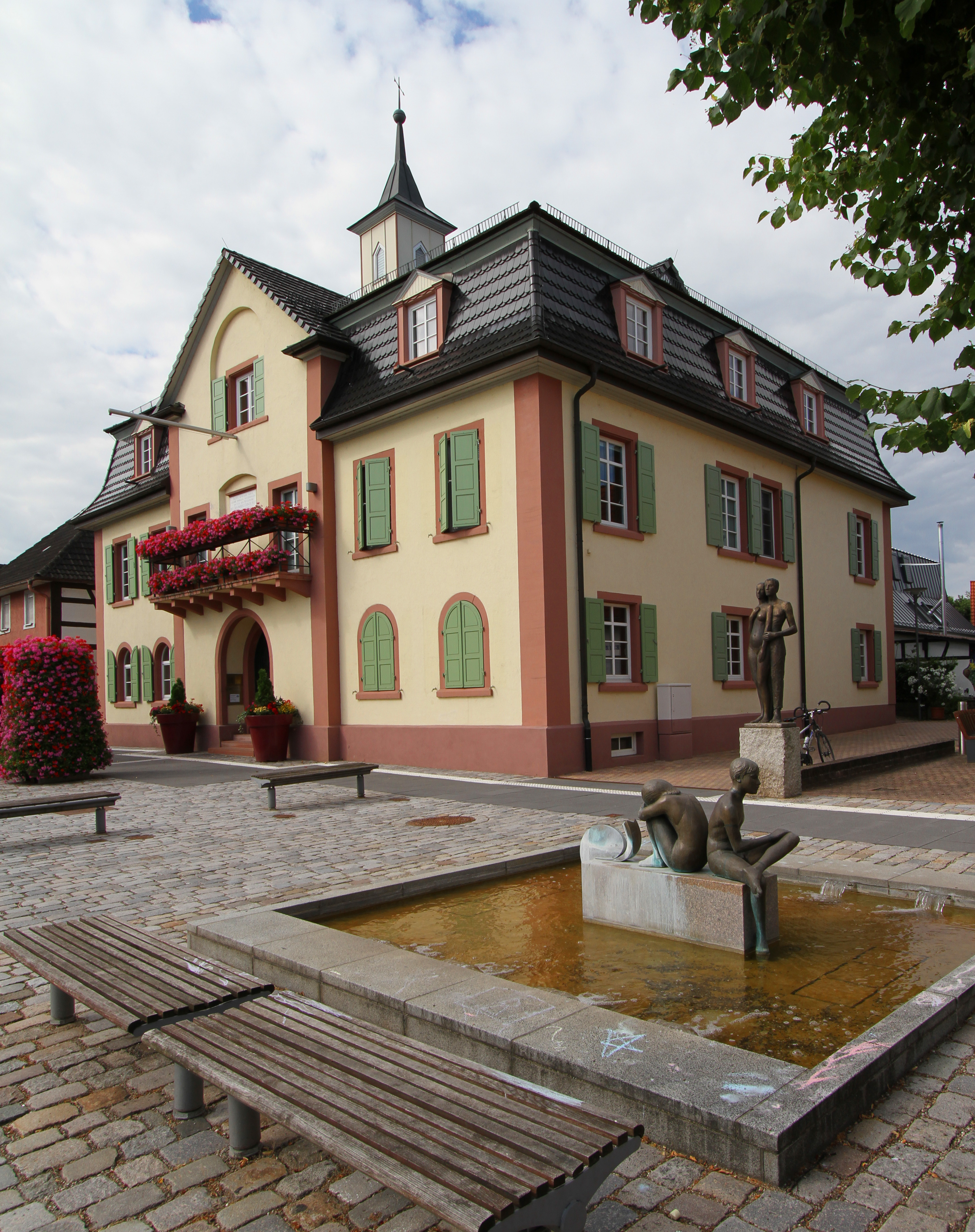 City hall in Muggensturm.